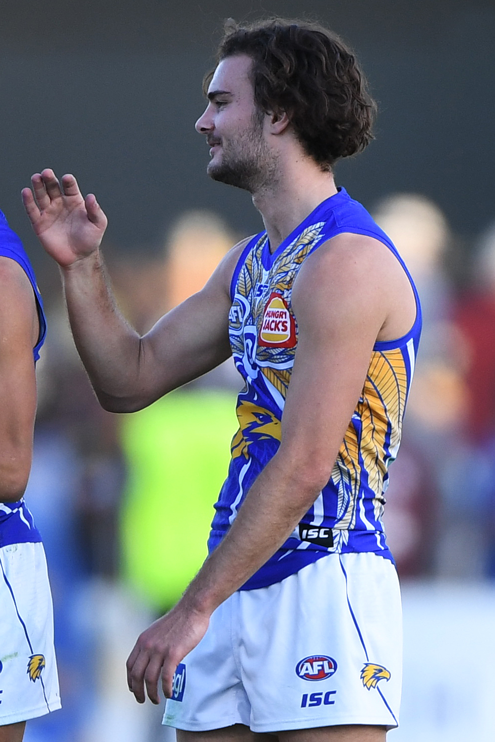 Jack Petruccelle of West Coast during the 2019 AFL round 18 match between Melbourne and West Coast at Traeger Park on Sunday, 21 July 2019 in Alice Springs, Northern Territory.